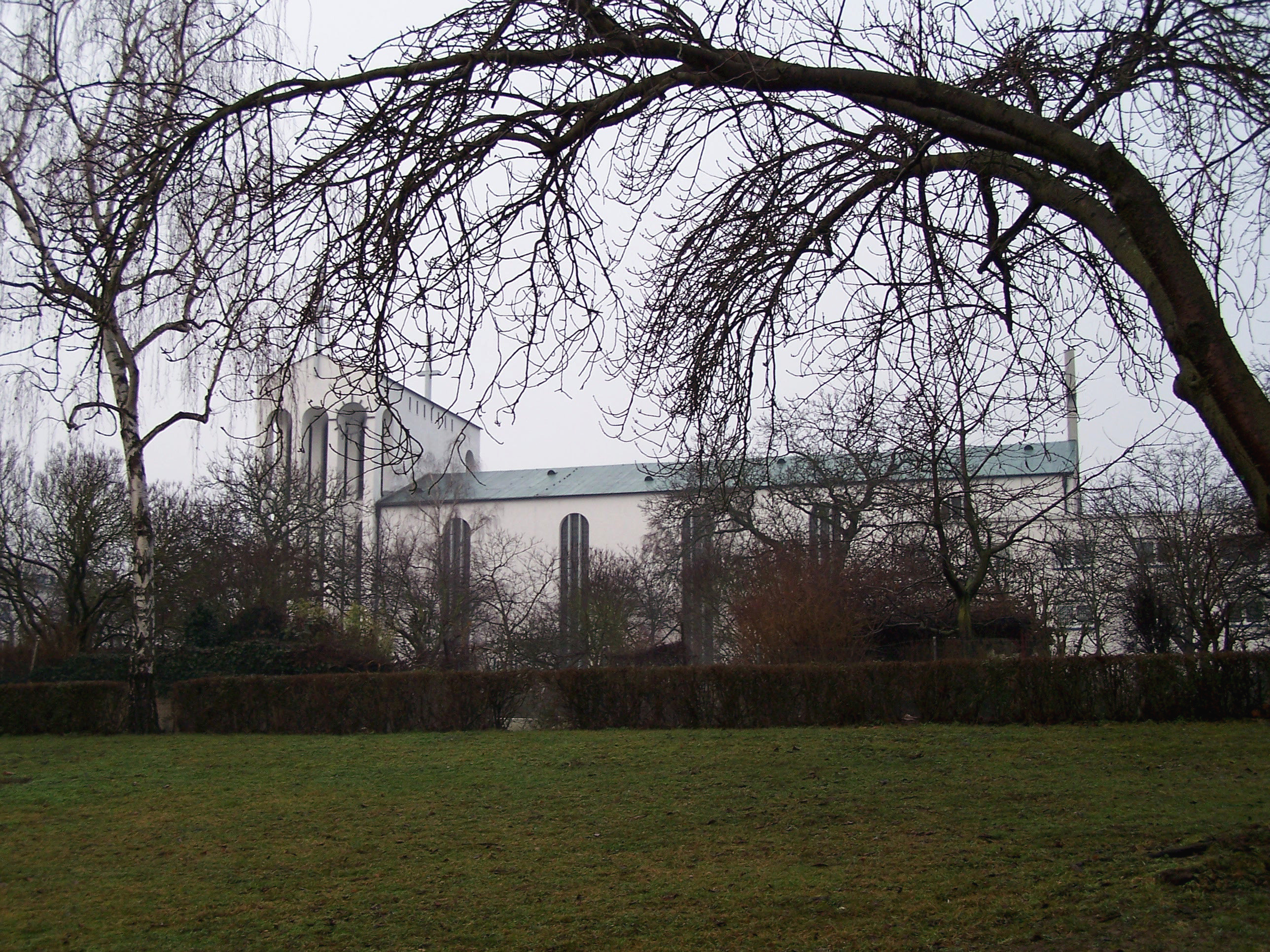 "Hangkrone" ("crown of the hillside") Holy Cross Church seen from the Bornheimer Hang in Frankfurt am Main-Bornheim, in December 2009